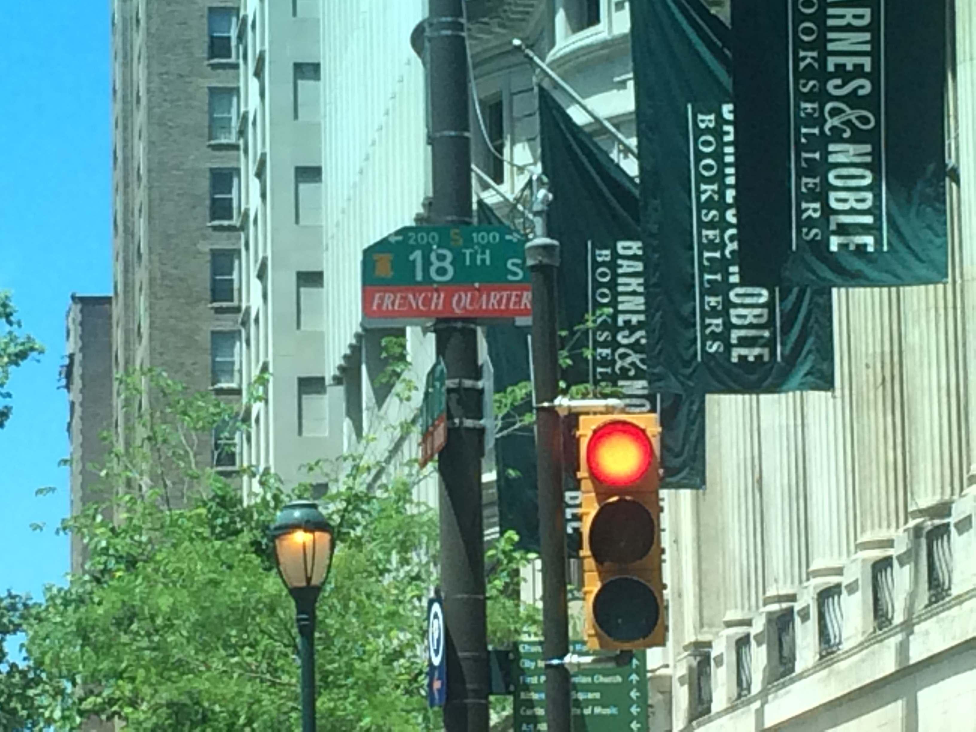 From my iphone 5s - French Quarter Philly